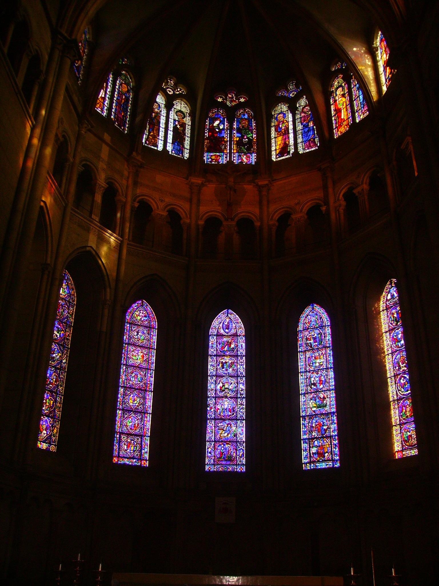 Choir of the Metropolitan Cathedral St. John the Baptist, Lyon